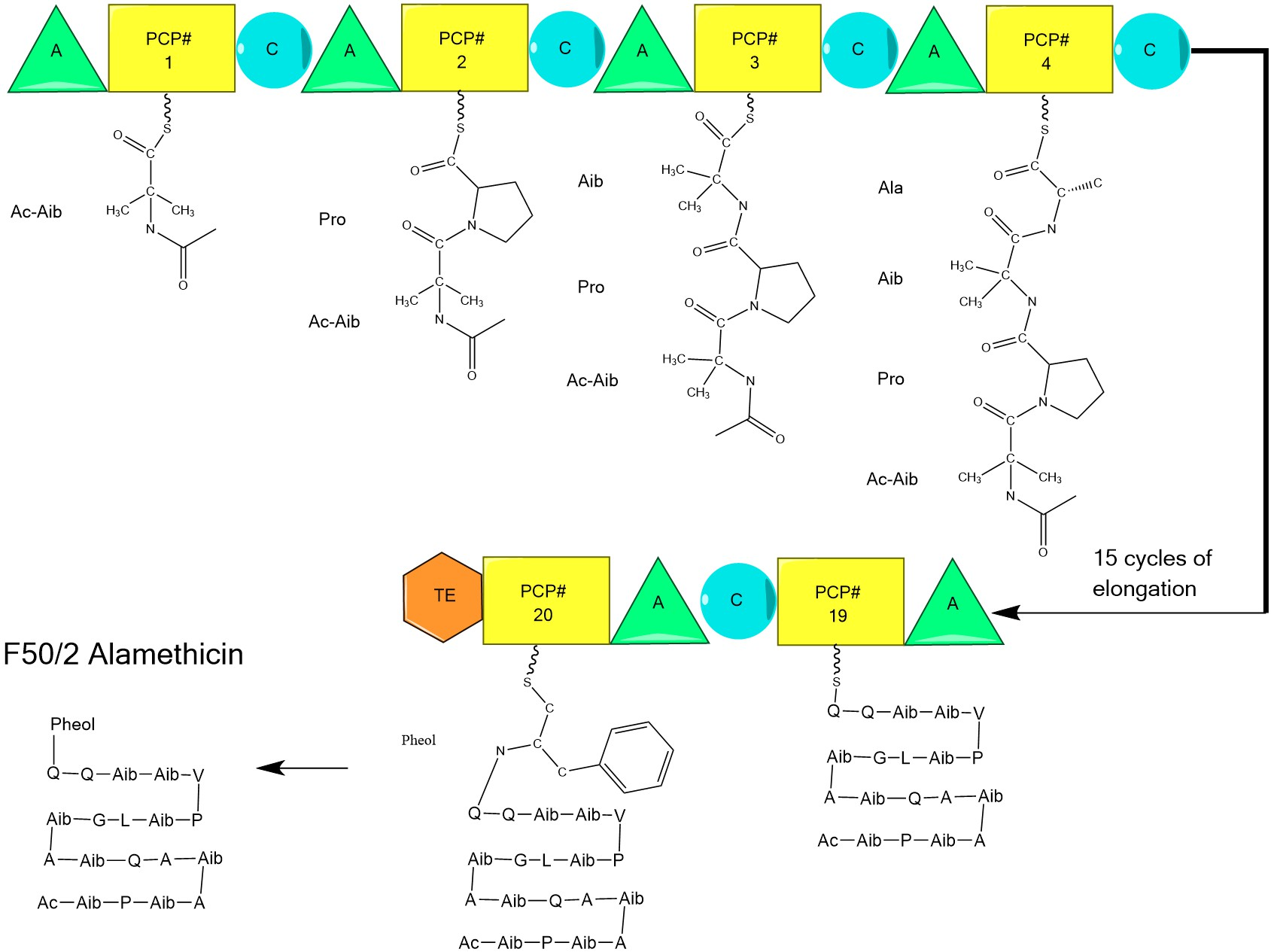 Another correction of total alamethicin biosynthesis